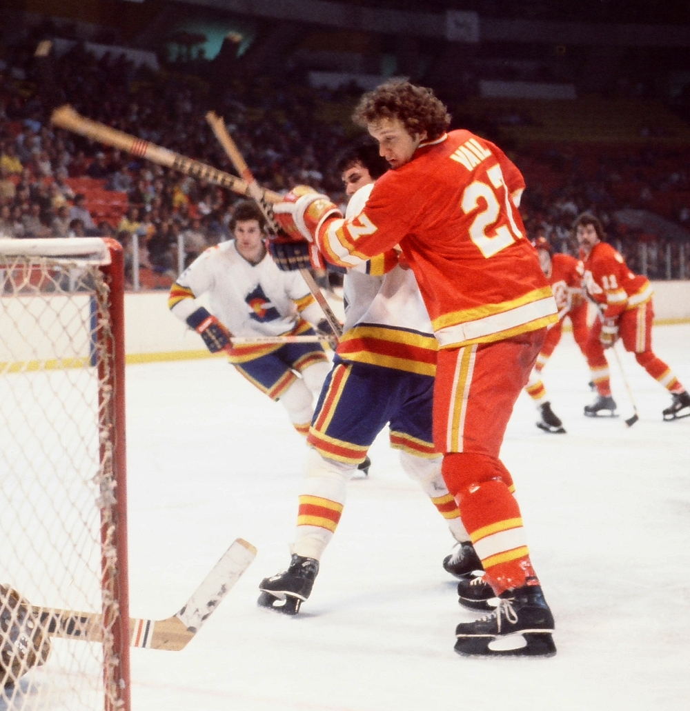 Eric Vail playing for the Atlanta Flames in a 1978 National Hockey League game against the Colorado Rockies. By Rick Dikeman. Digital image was scanned from a 35mm Ektachrome transparency.